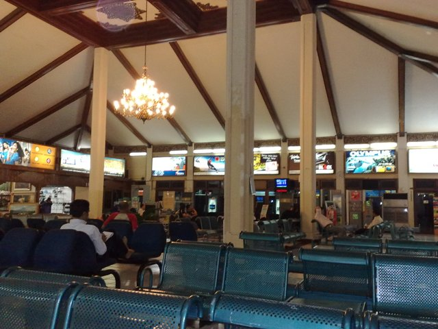 Airport Main Hall